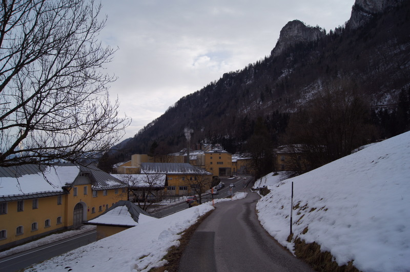 Ansicht